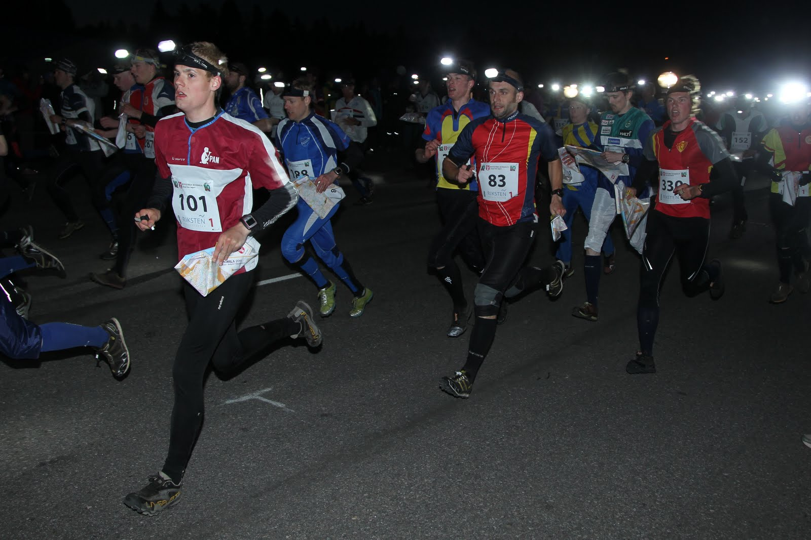 Tiomila